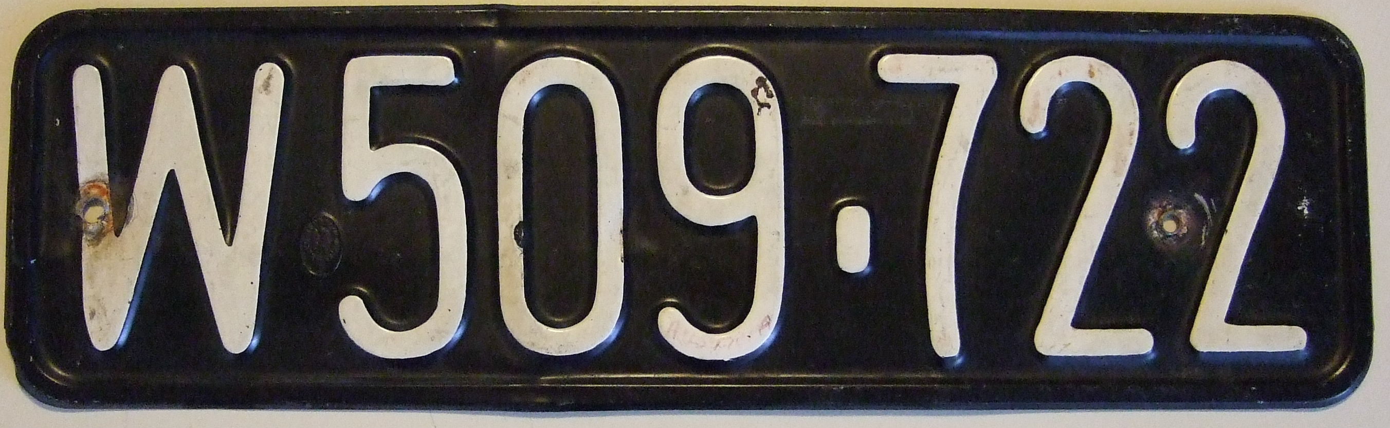 License plate of Austria before 1990